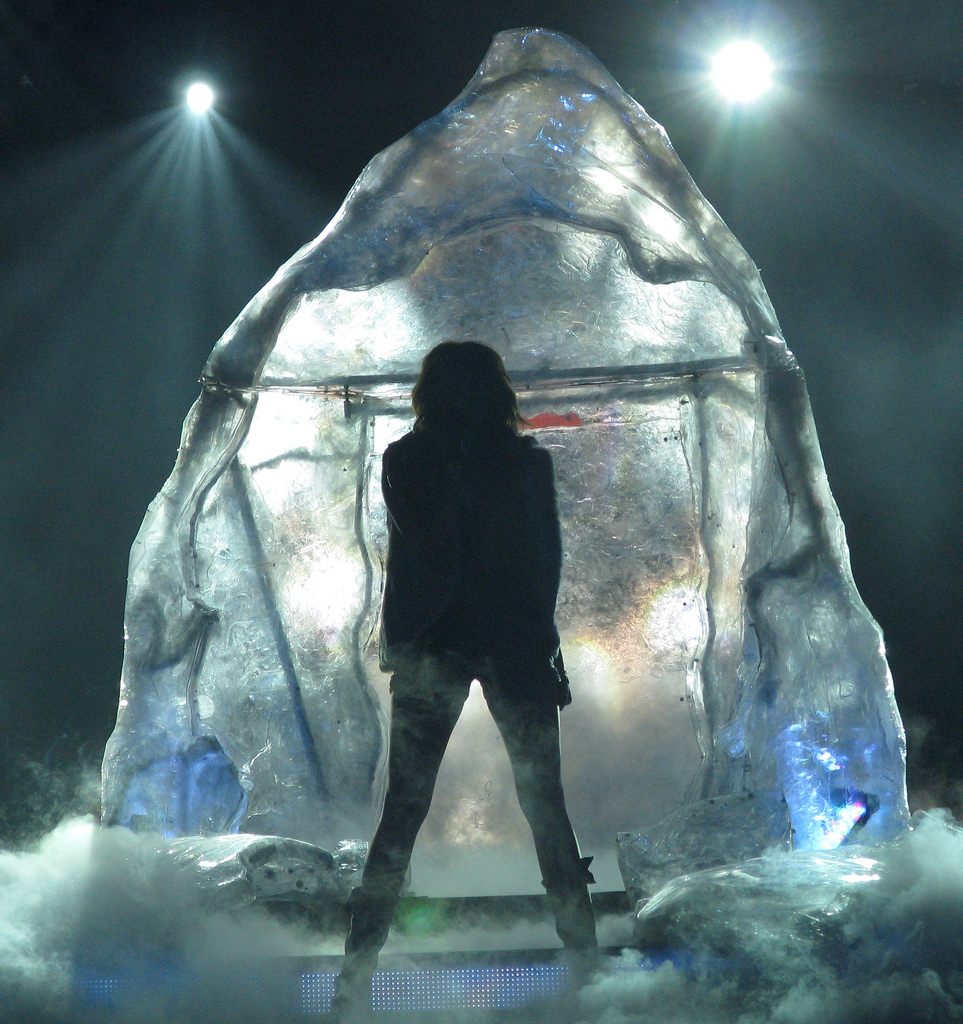 Pop singer Miley Cyrus performs "Breakout", wearing a black leather hotpants suit, inside of a synthetic glacier, on September 14, 2009 at the Rose Garden in Portland, Oregon, as part of her 2009 Wonder World Tour.